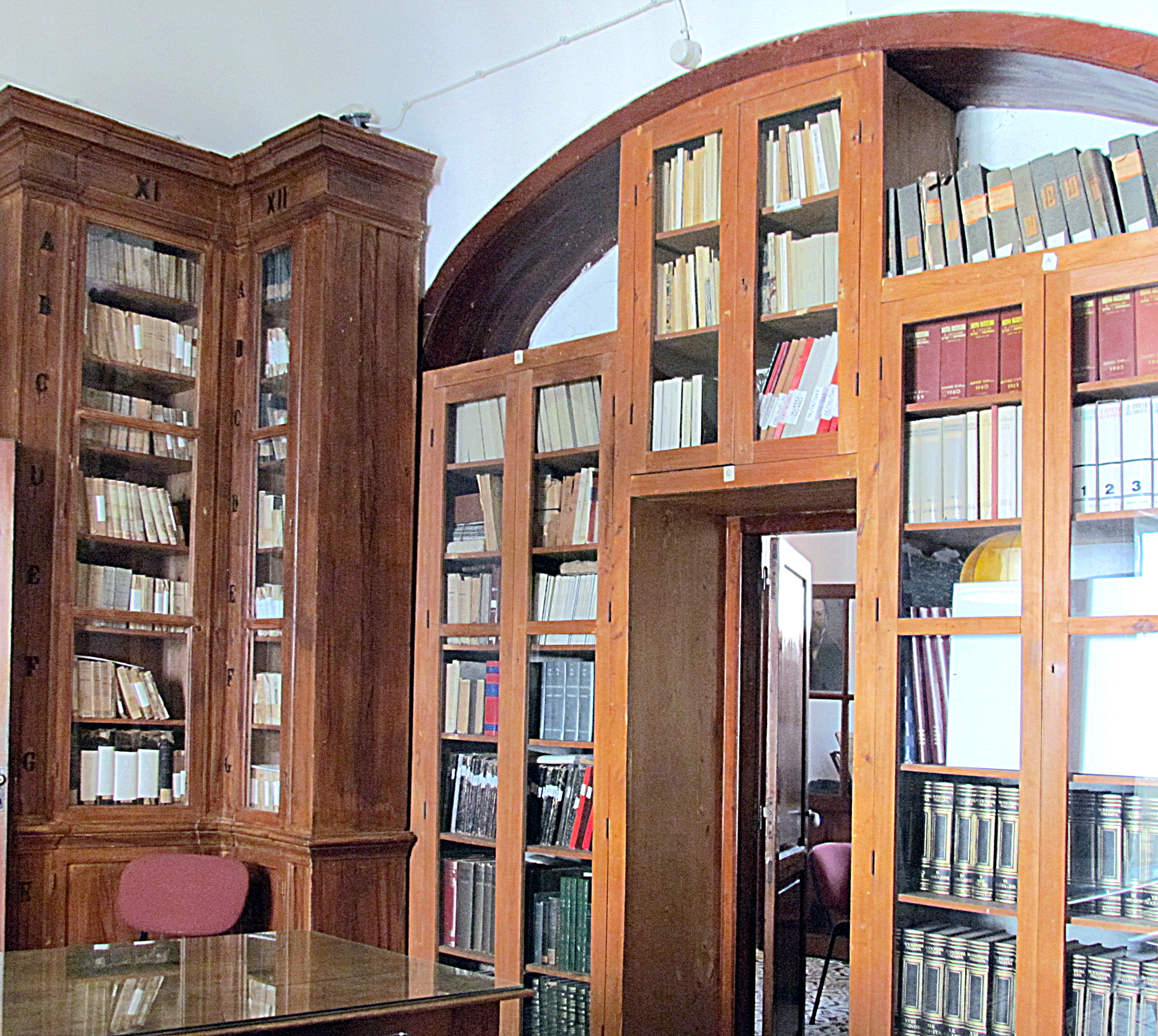 The Museum Library.